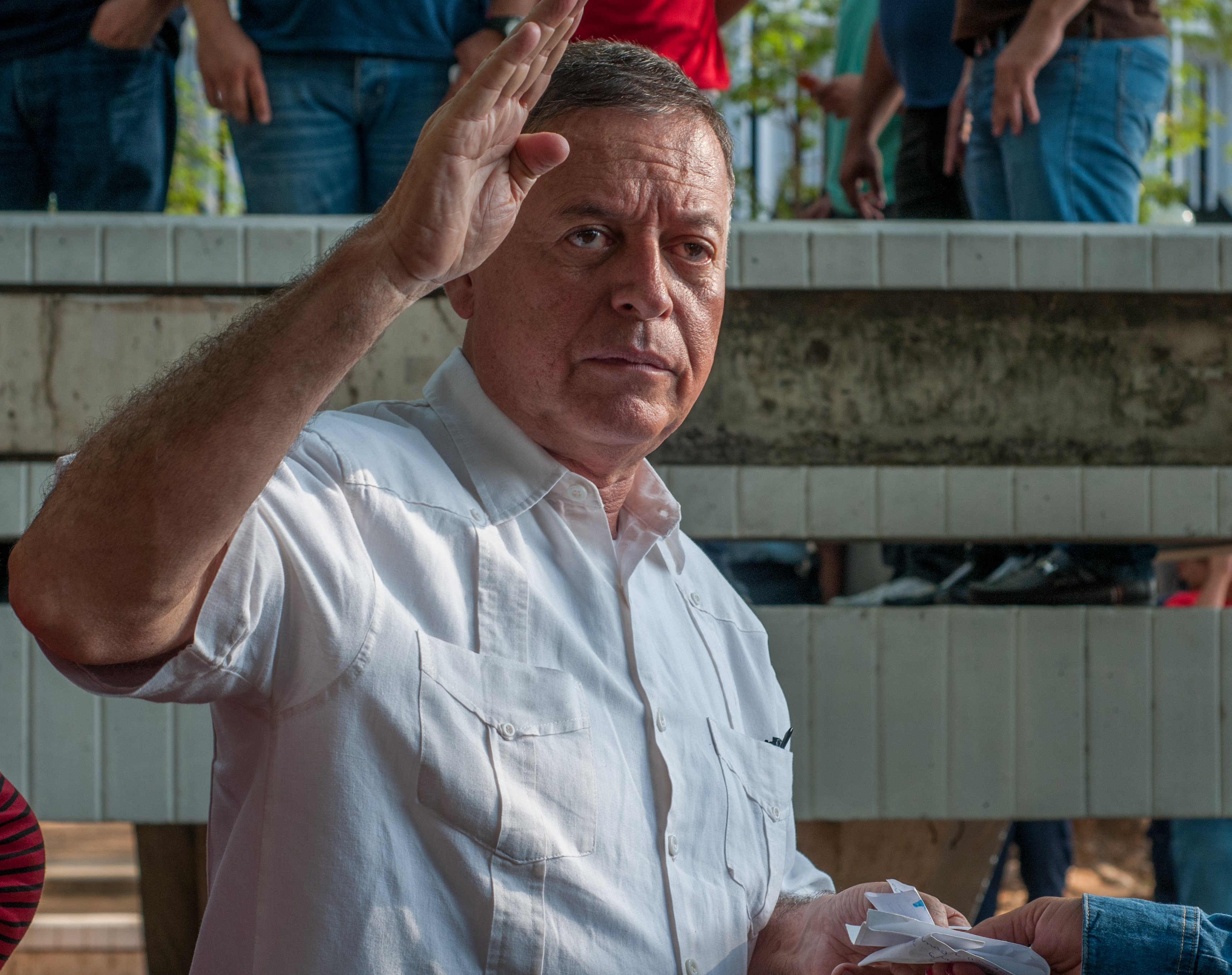 Governor of Maracaibo, Francisco Arias Cárdenas.